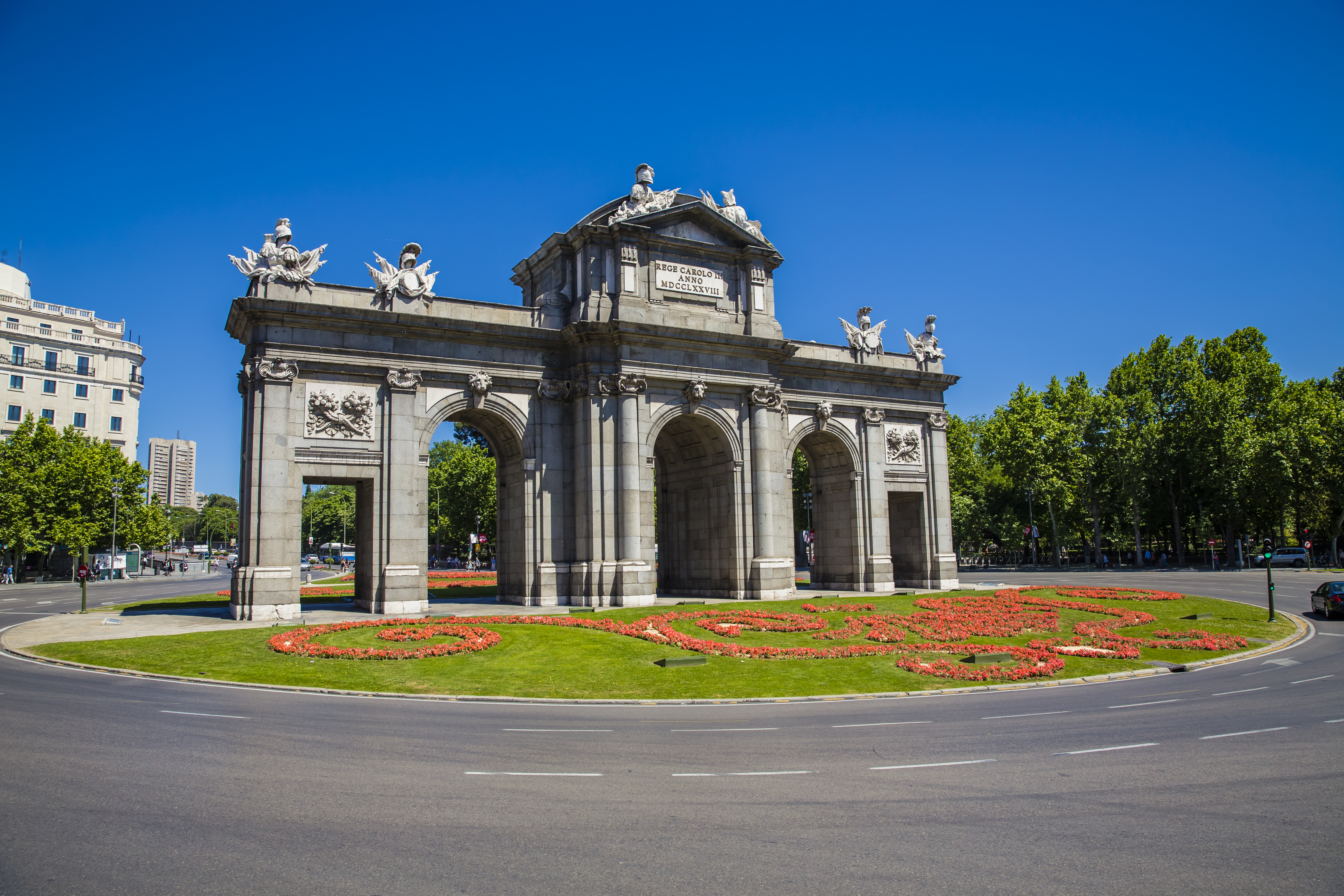 Tour around the City of Madrid Spain